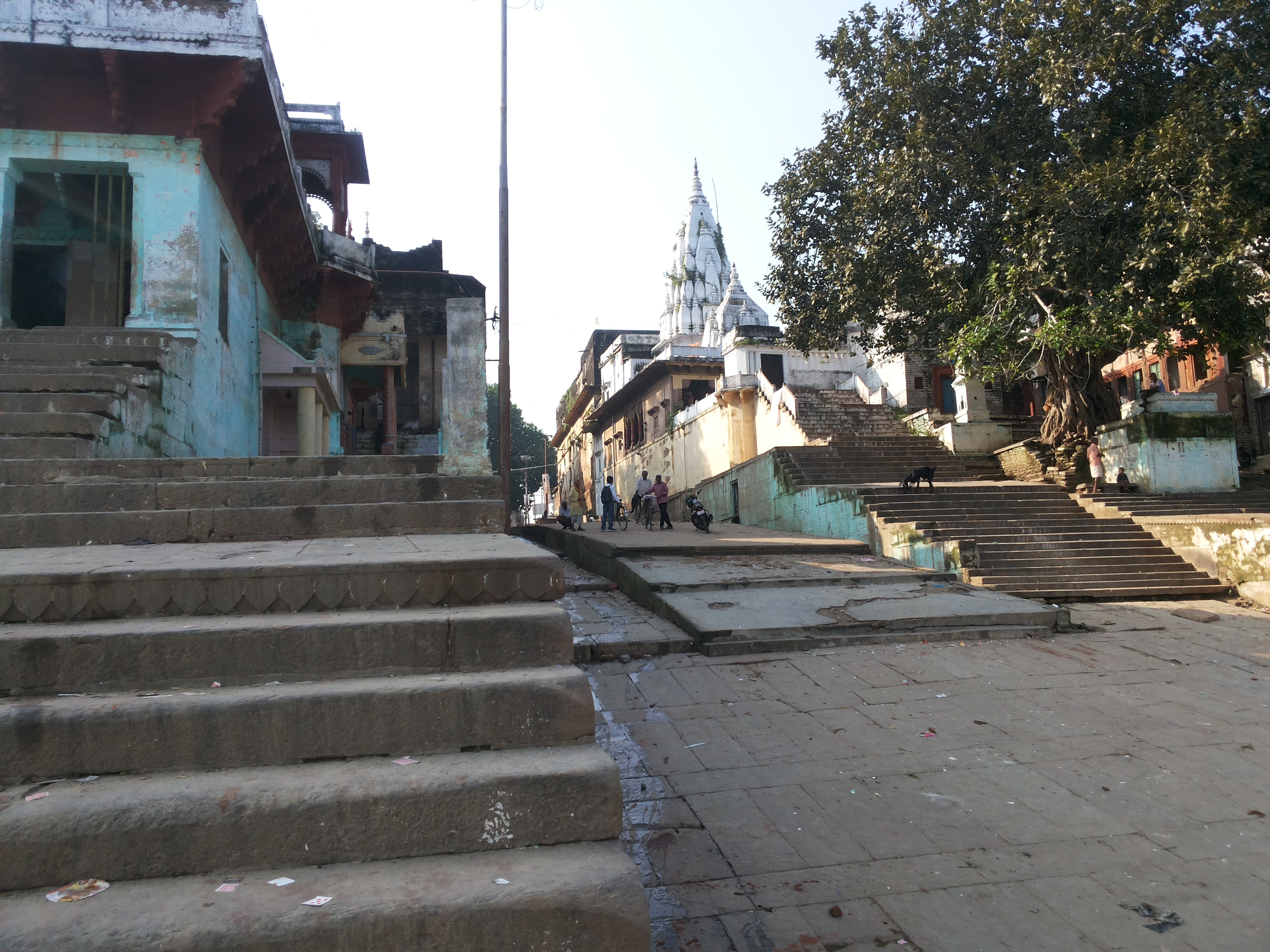 Footsteps of the Narghat